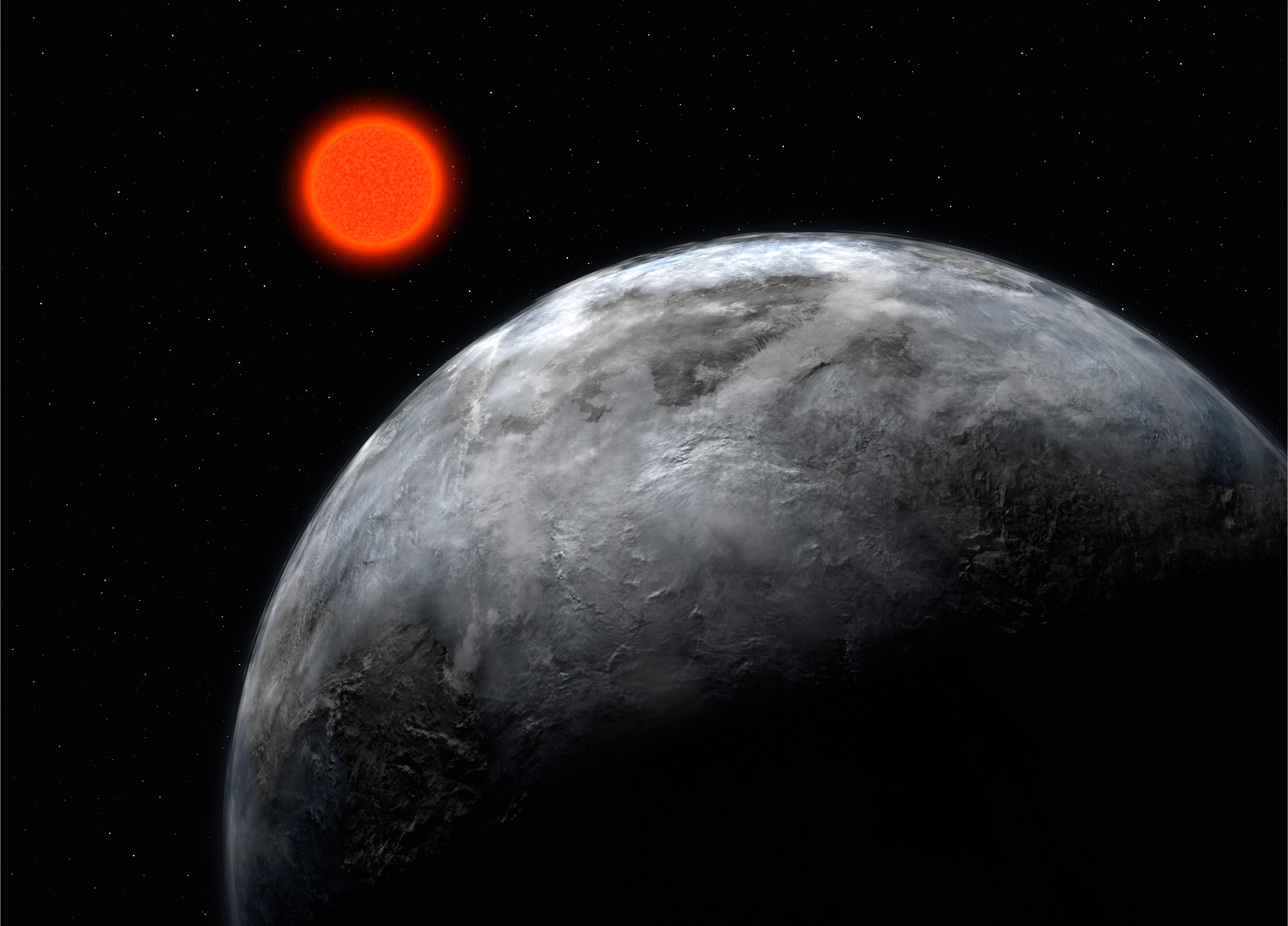 Artist's impression of Gliese 581 c (5.6 ME)